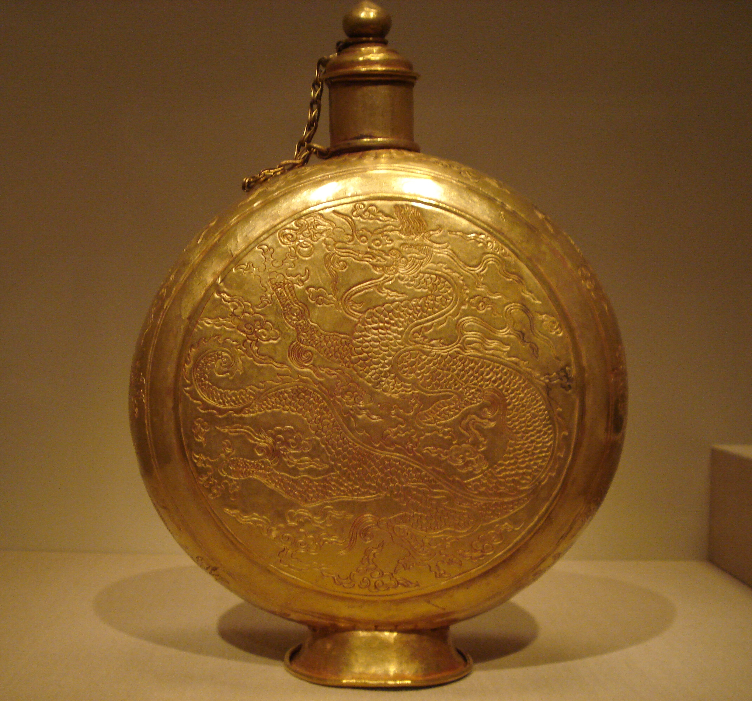 A golden canteen made during the Chinese Ming Dynasty, dated 15th century. The museum caption reads: Gold was long held to be a symbol of wealth and prestige in China, and during the Ming Dynasty (1368-1644), the imperial court issued guidelines to partially restrict its use. In theory, only society's most privileged were allowed to own large amounts of gold vessels and tableware. This canteen, decorated with a five-clawed dragon—a symbol of the emperor—was probably made for members of the ruling house. Based on style, this canteen dates to the fifteenth century. Its technique is repousse (a method of decorating a surface by hammering the reverse of the object). One of the round panels of the canteen's belly was left open so that most of the vessel could be decorated from the inside. To close the canteen, a separately decorated sheet of gold was soldered in place.